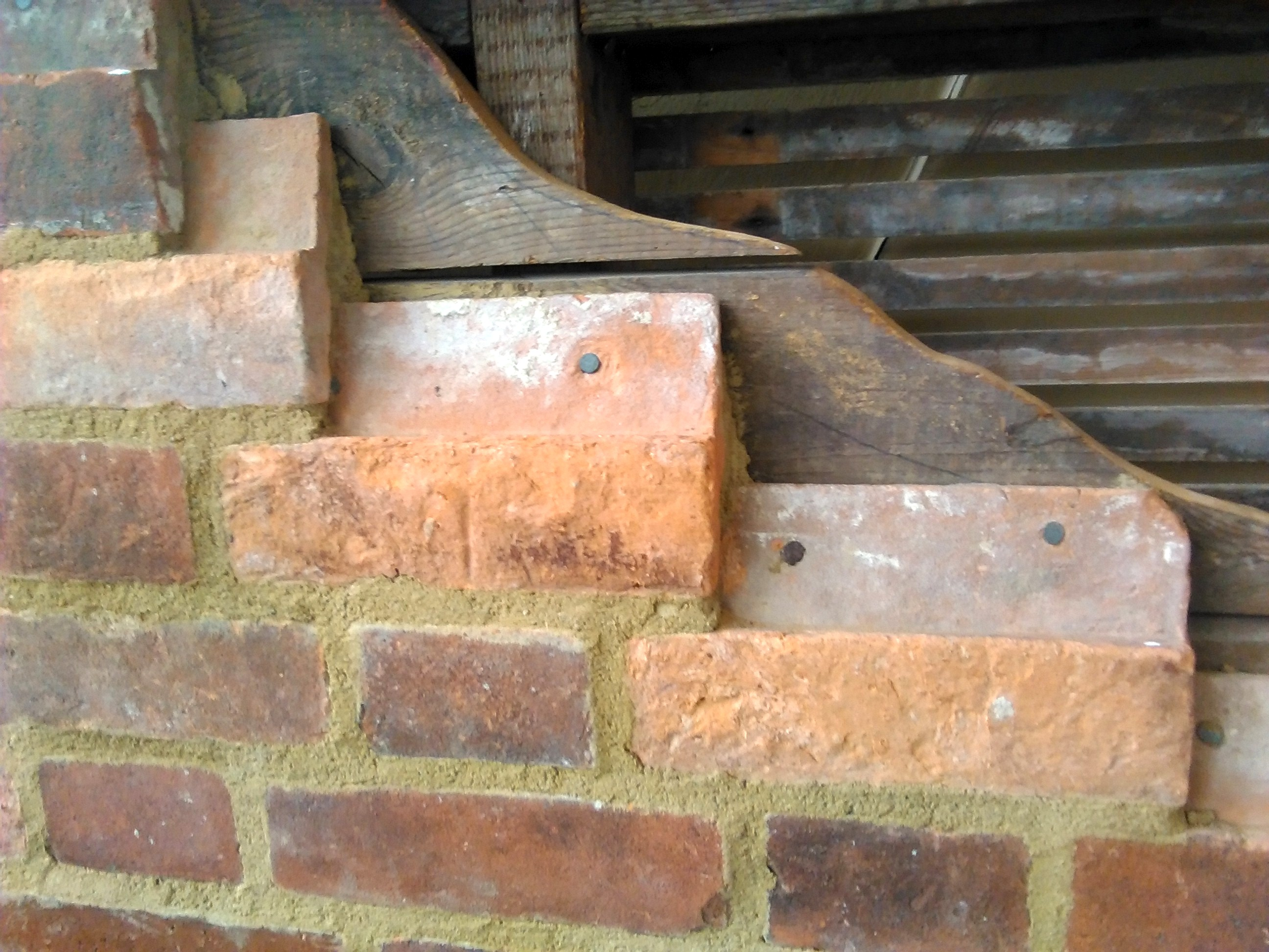 Display of mathematical tiles at Bourne Hall Museum, Ewell.